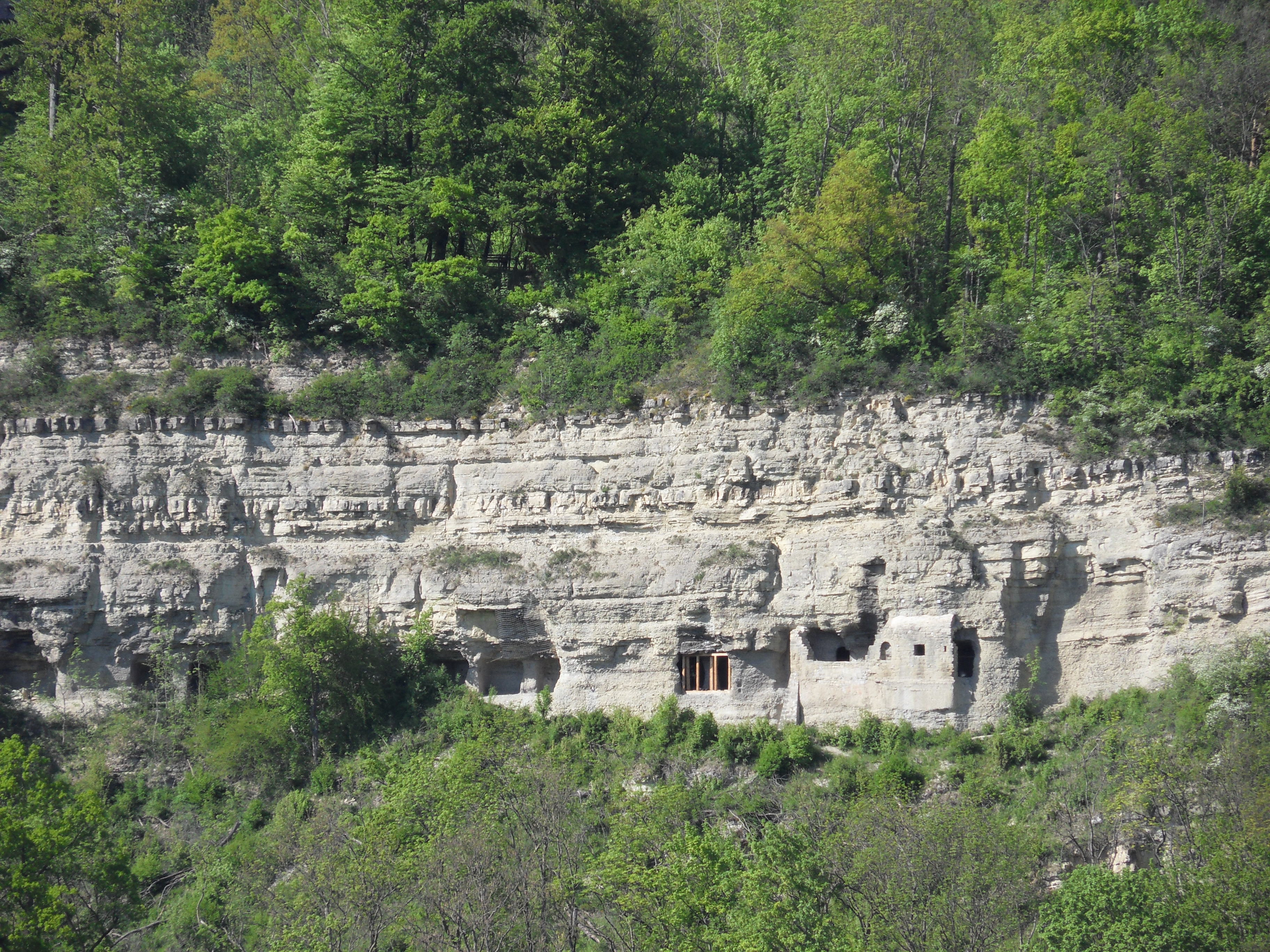 Remains of the castle Felsenburg above Buchfart, Thuringia / Germany